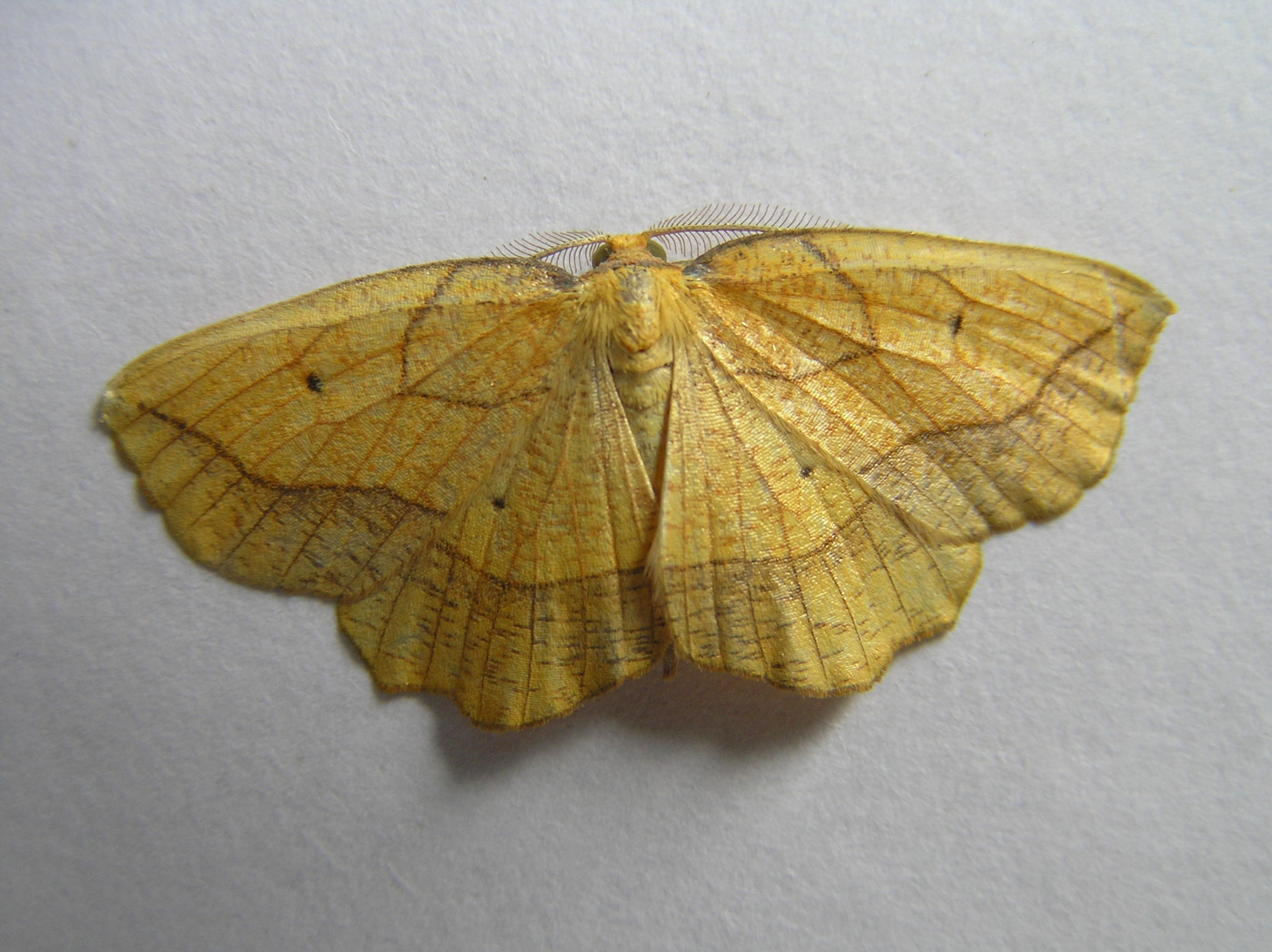 Epione repandaria (Goes, the Netherlands)